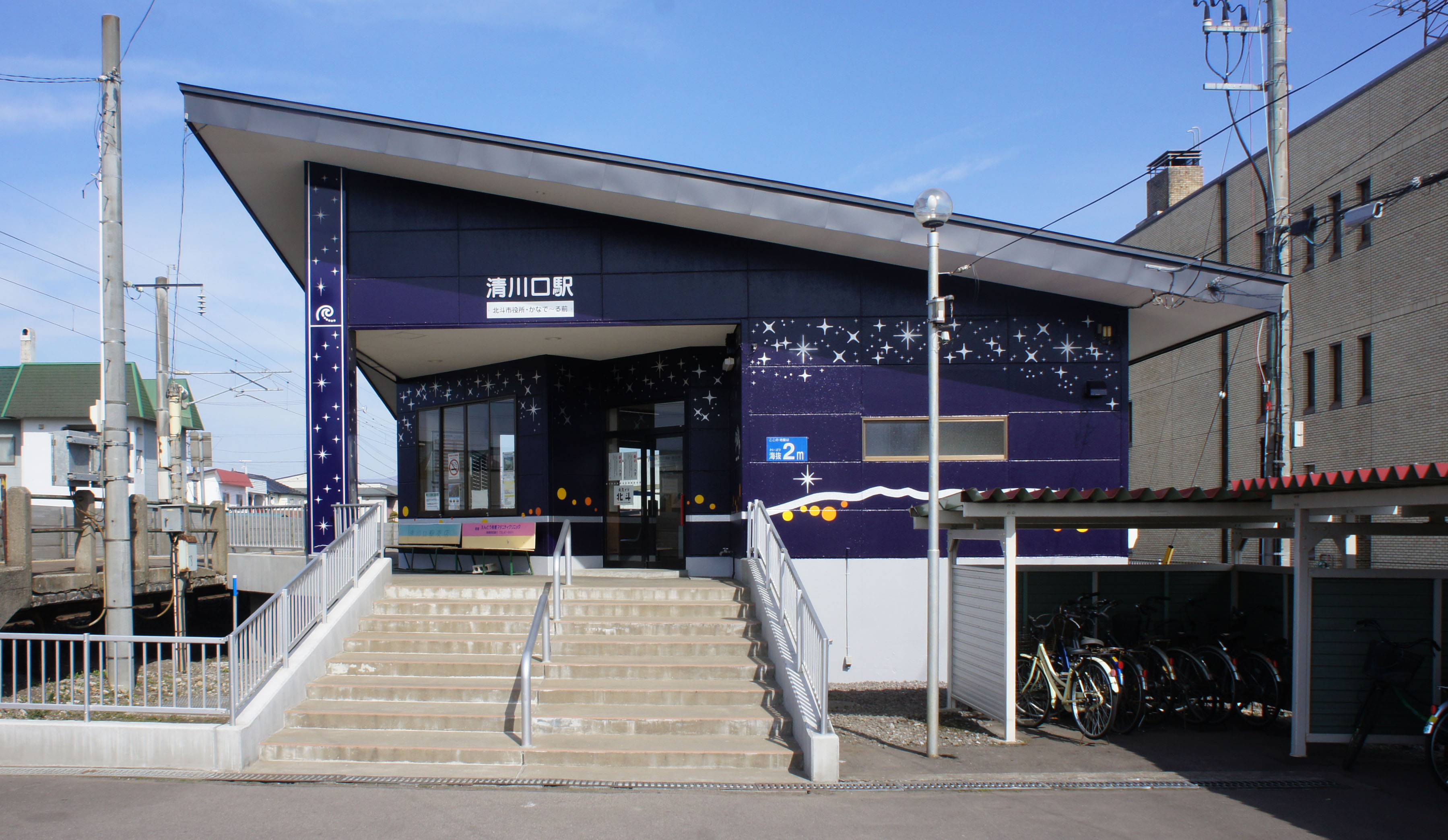 Station building of South Hokkaido Railway Line Kiyokawaguchi Station Sony NEX-3 + E 18-55mm F3.5-5.6 OSS